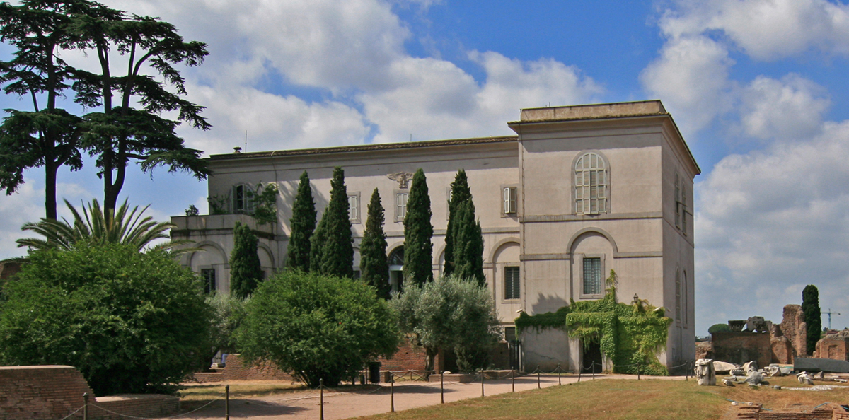 Museo Palatino, Palatine Hill, Rome.